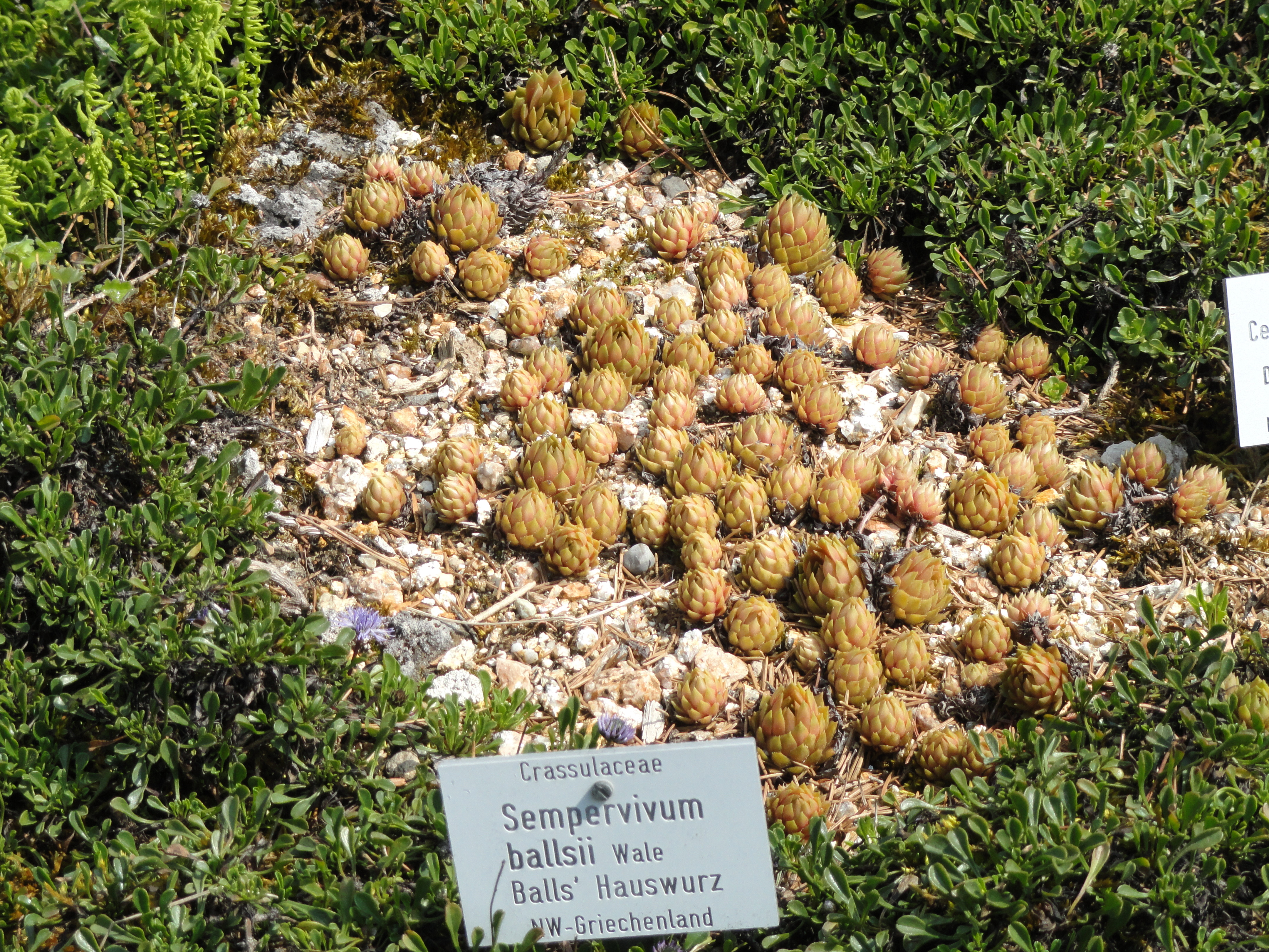 Sempervivum marmoreum subsp. marmoreum (syn. Sempervivum ballsii ) specimen in the Botanischer Garten München-Nymphenburg, Munich, Germany.